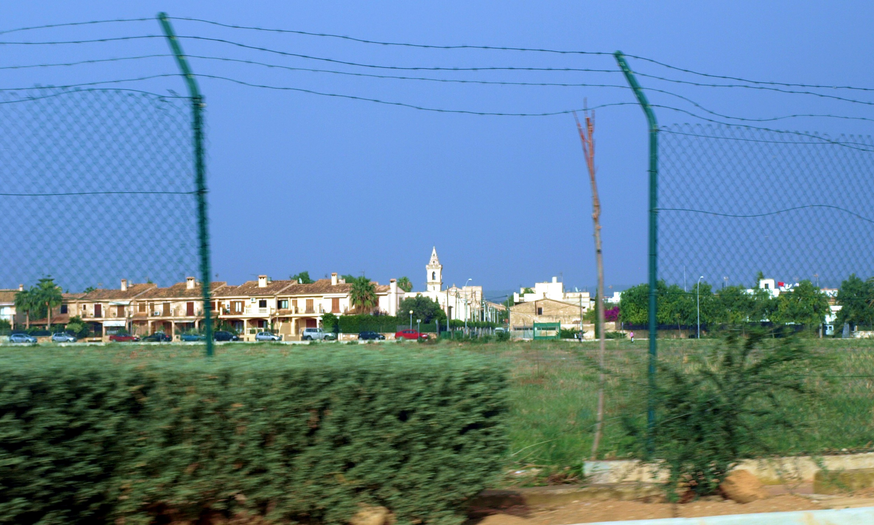 Pla de Na Tesa Church Tower Place Lloc/Place: Pla de na Tesa Marratxí